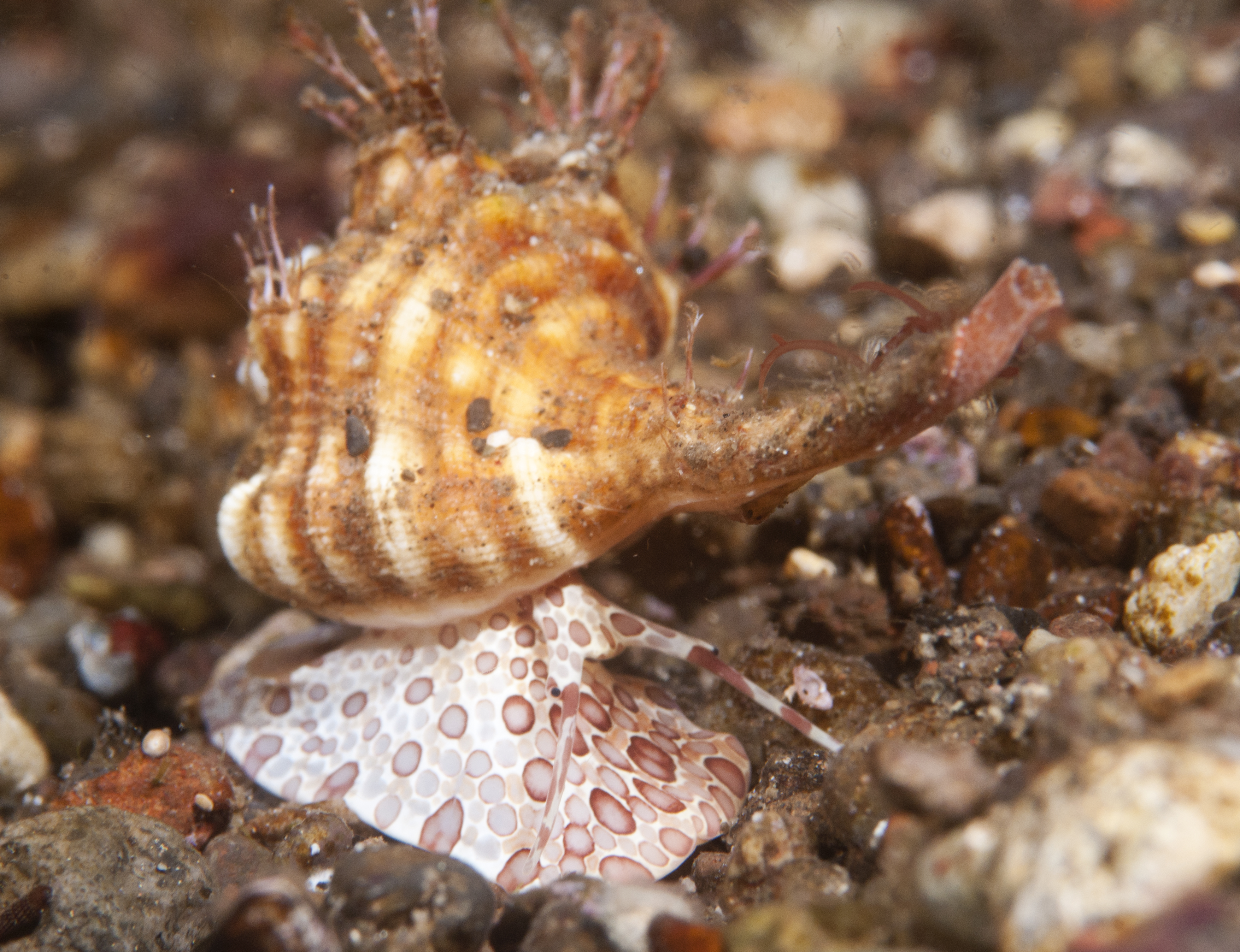 A triton sea snail makes its way along the sea bottom near Alor Island, Indonesia